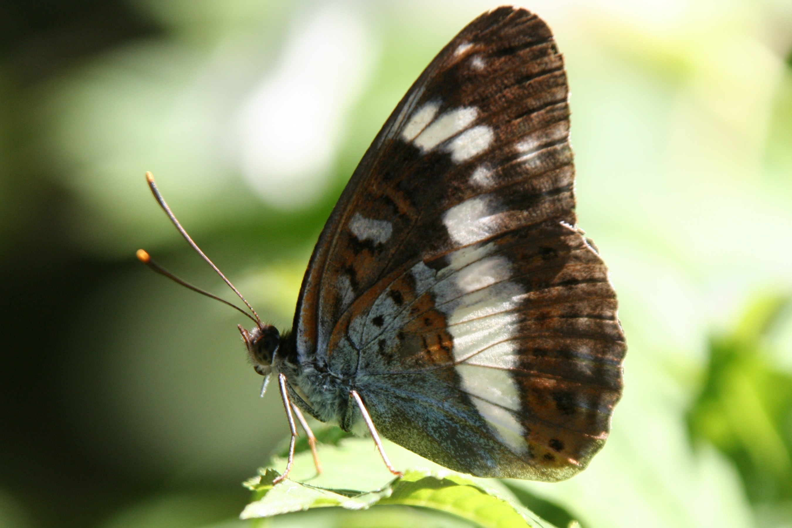 A White admiral butterfly (Limenitis camilla), photographed in Schwäbisch Hall-Wackershofen